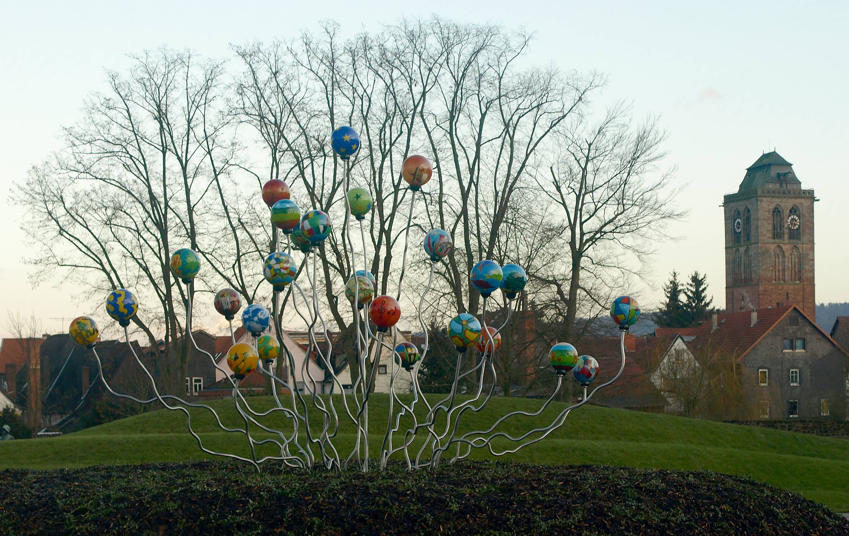 Sculpture named "Europablume" (flower of Europe) from 2007